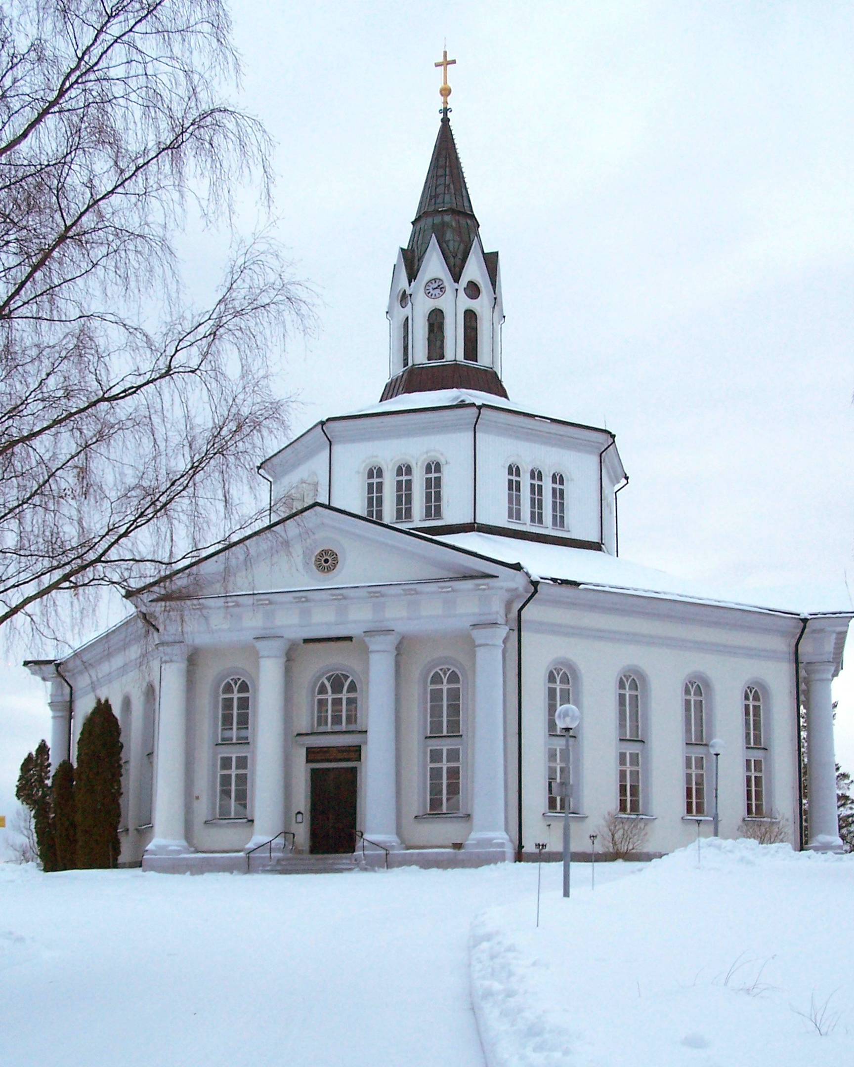 Själevad church, Sweden